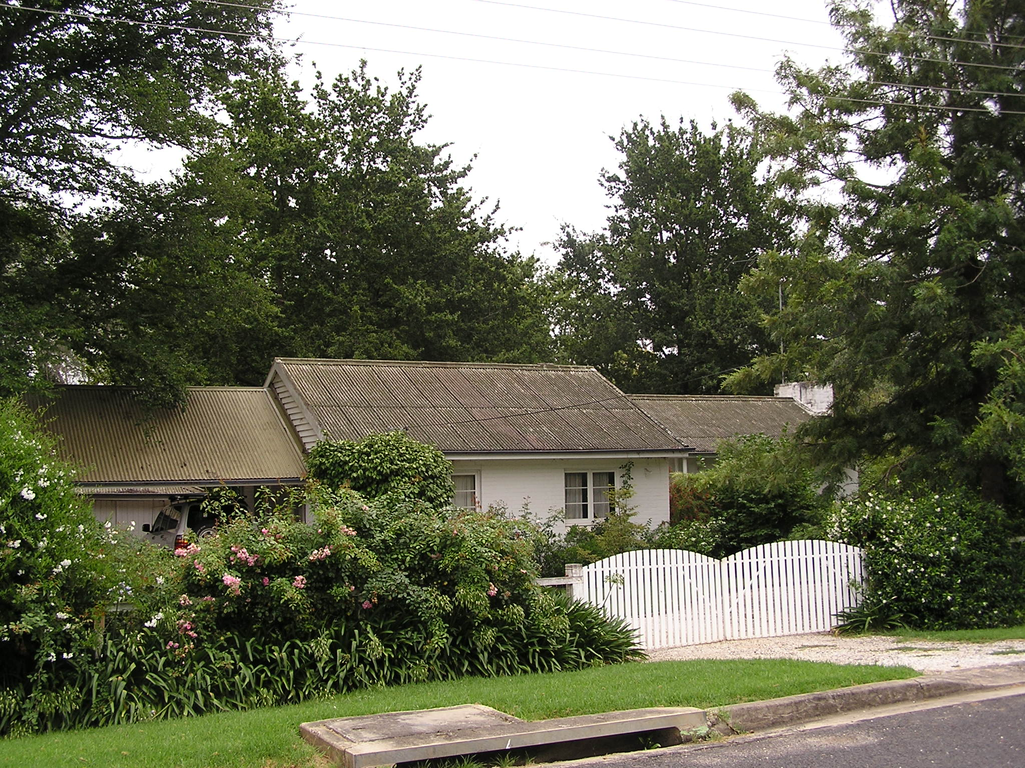 3 Jasmine Street, Bowral, New South Wales, Australia an address that has been associated with Arthur Upfield for the last years of his life before he died in 1964.